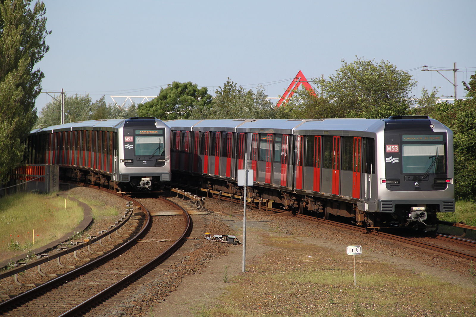 GVB Alstom type M5 nr 107-108 & 109-110, line 53, Venserpolder(Amsterdam Zuidoost)